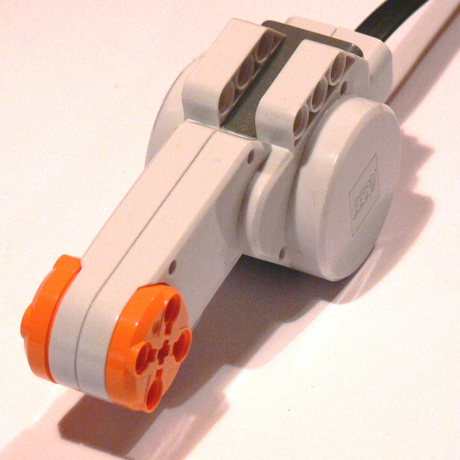 Servo-moteur du Mindstorms NXT.